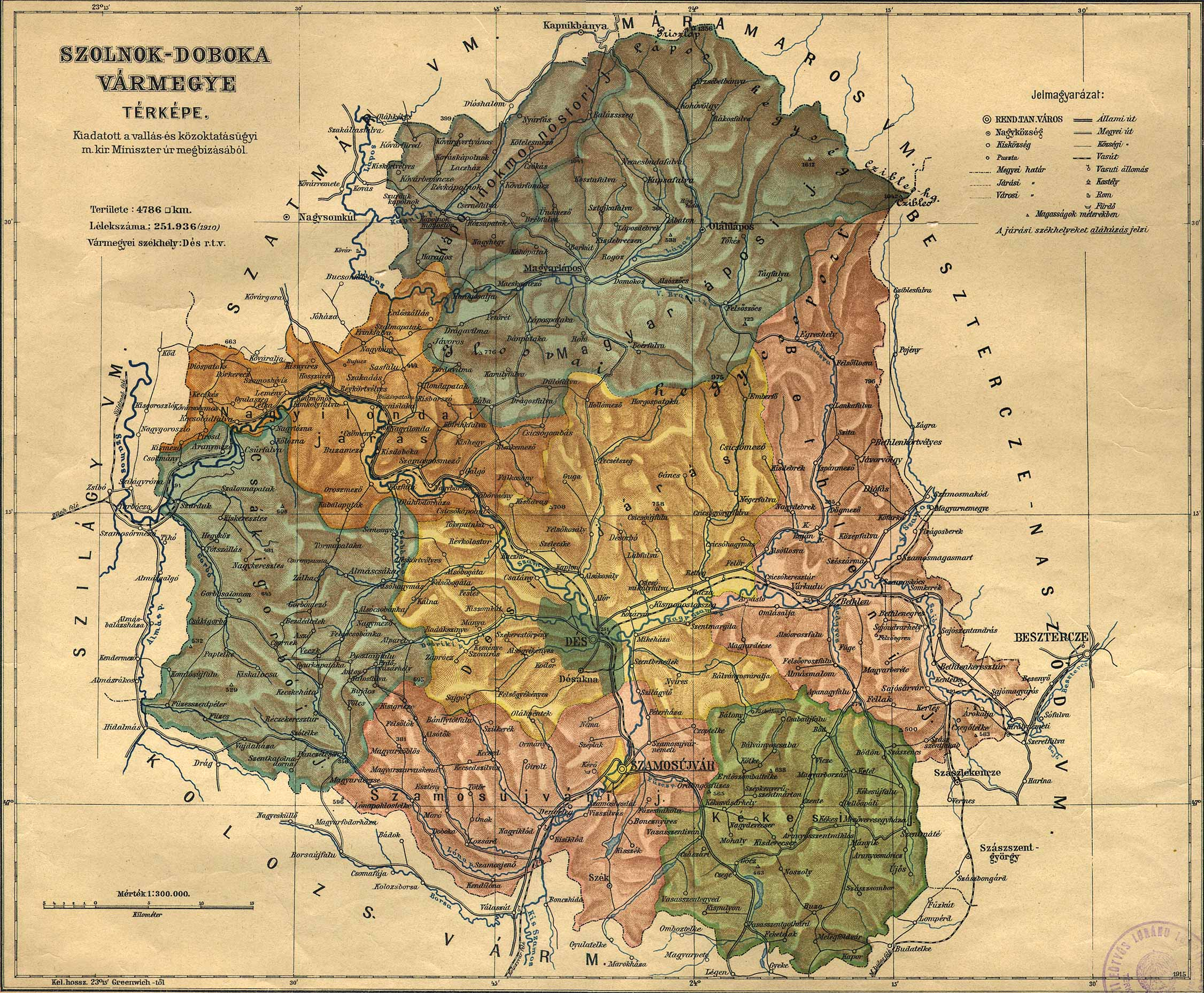 Administrative map of the county of Szolnok-Doboka in the Kingdom of Hungary